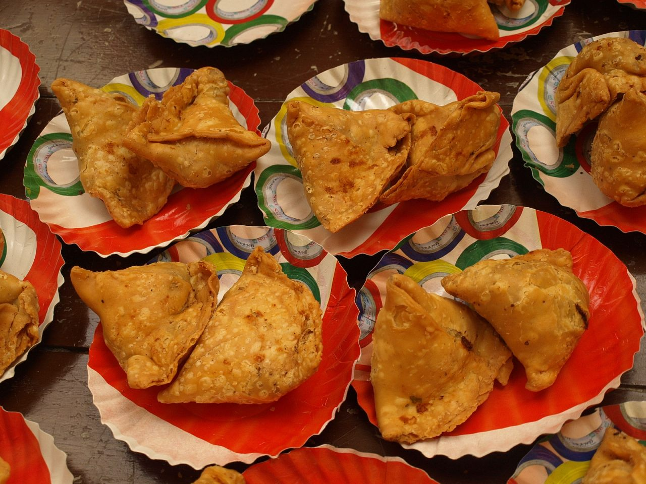 The samosa is a common fried snack in India. Pictured here are hot crispy tasty Samosas served for breakfast at BarCampMumbai4.